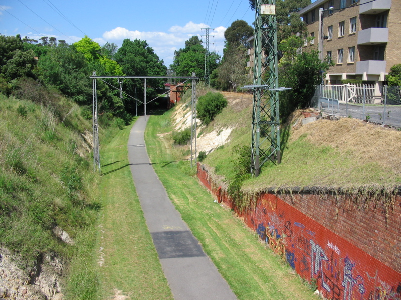 A section of the Inner Circle Line between Royal Parade and The Avenue, Carlton North, Victoria, Australia.